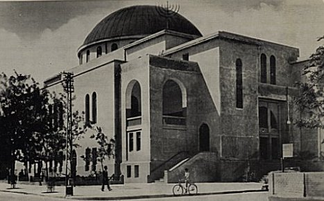 The Great Synagogue in Tel Aviv, 1930's. Picture from English Wikipedia.